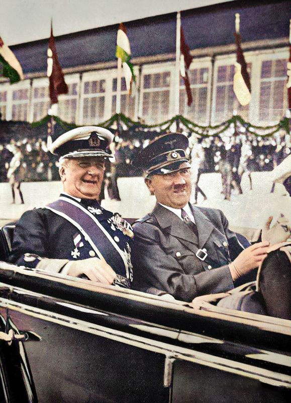 Colorized photo of Hungarian regent Miklos Horthy and nazi dictator Adolf Hitler.